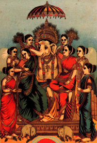 Ganesha with 8 Sidhis